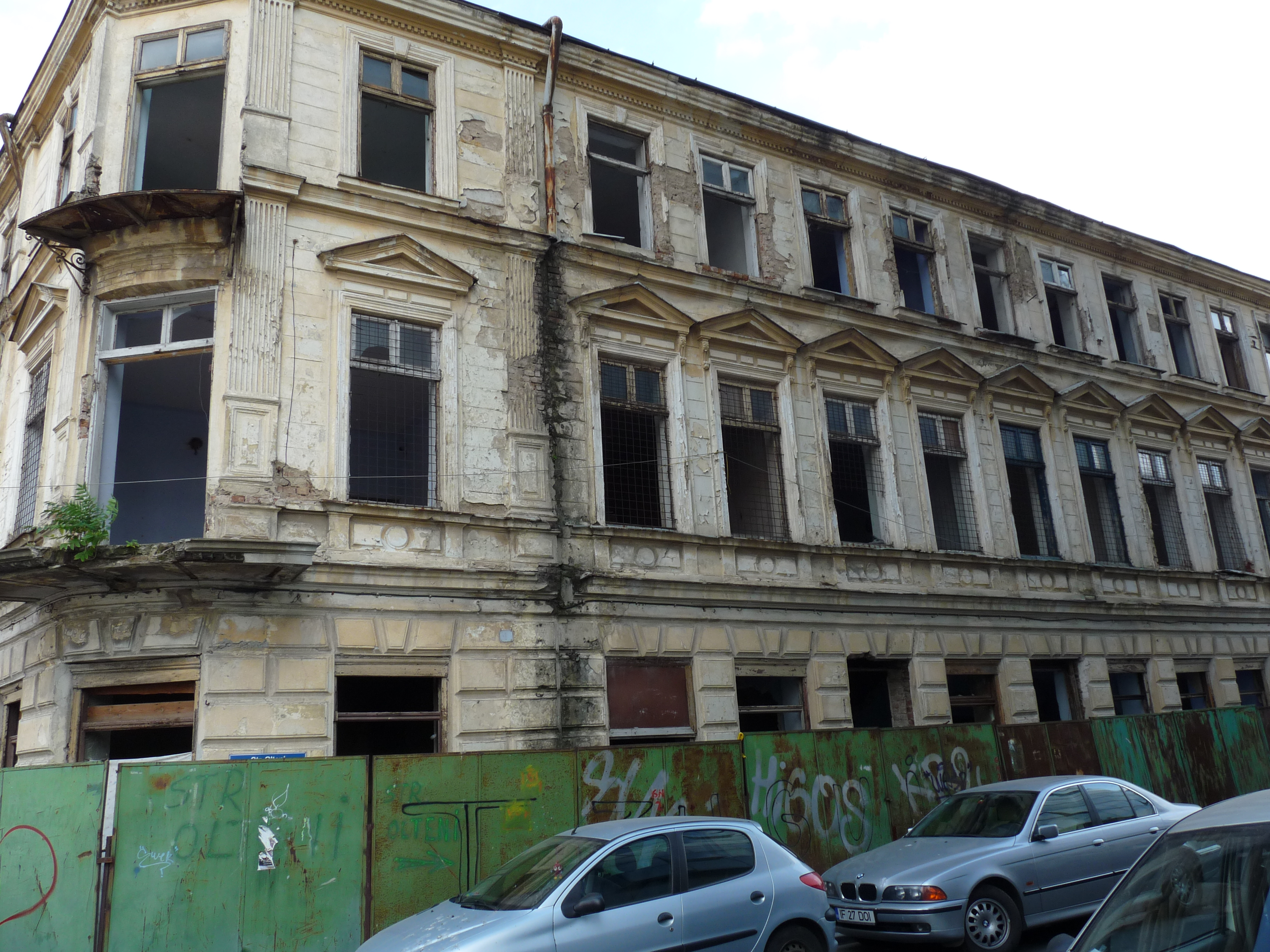 Historic building in Bucharest, Romania, Olteni street 1.